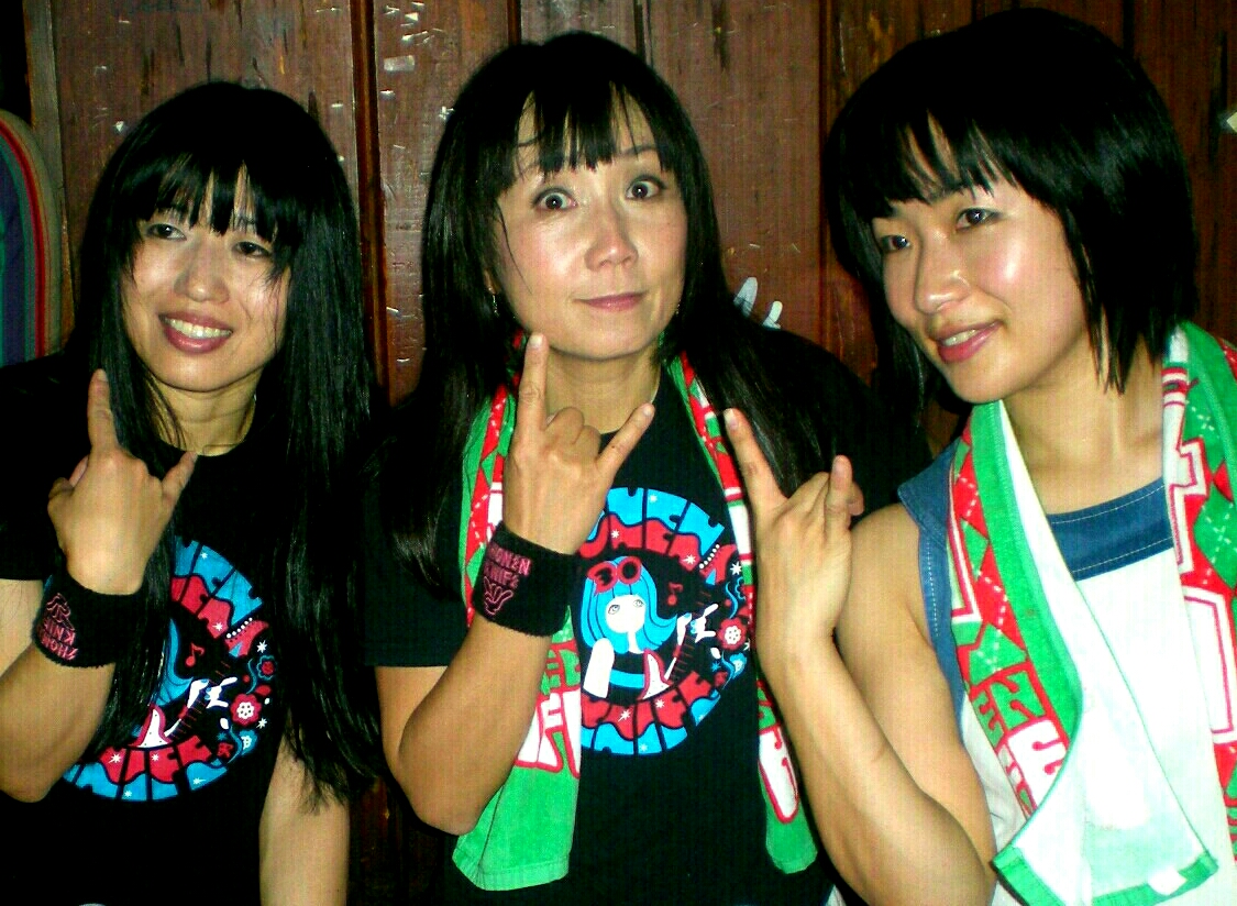 The band Shonen Knife posing for photos after performing at a concert.